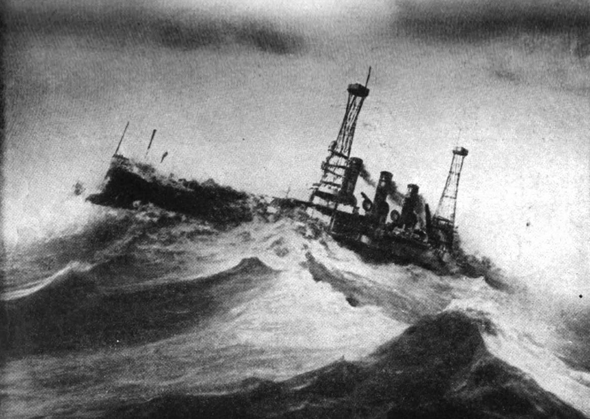 USS Vermont (BB-20) in a storm in the Atlantic Ocean in December 1913 as taken by an observer on board USS Wyoming (BB-32). This photograph was published in The Outlook with the following caption: "The Vermont battling with Old Neptune This fine photograph of a battle-ship struggling with the elements was taken by a member of the crew of the Wyoming while the fleet was returning from Europe after the recent voyage to the Mediterranean." The photograph was credited to the International News Service.